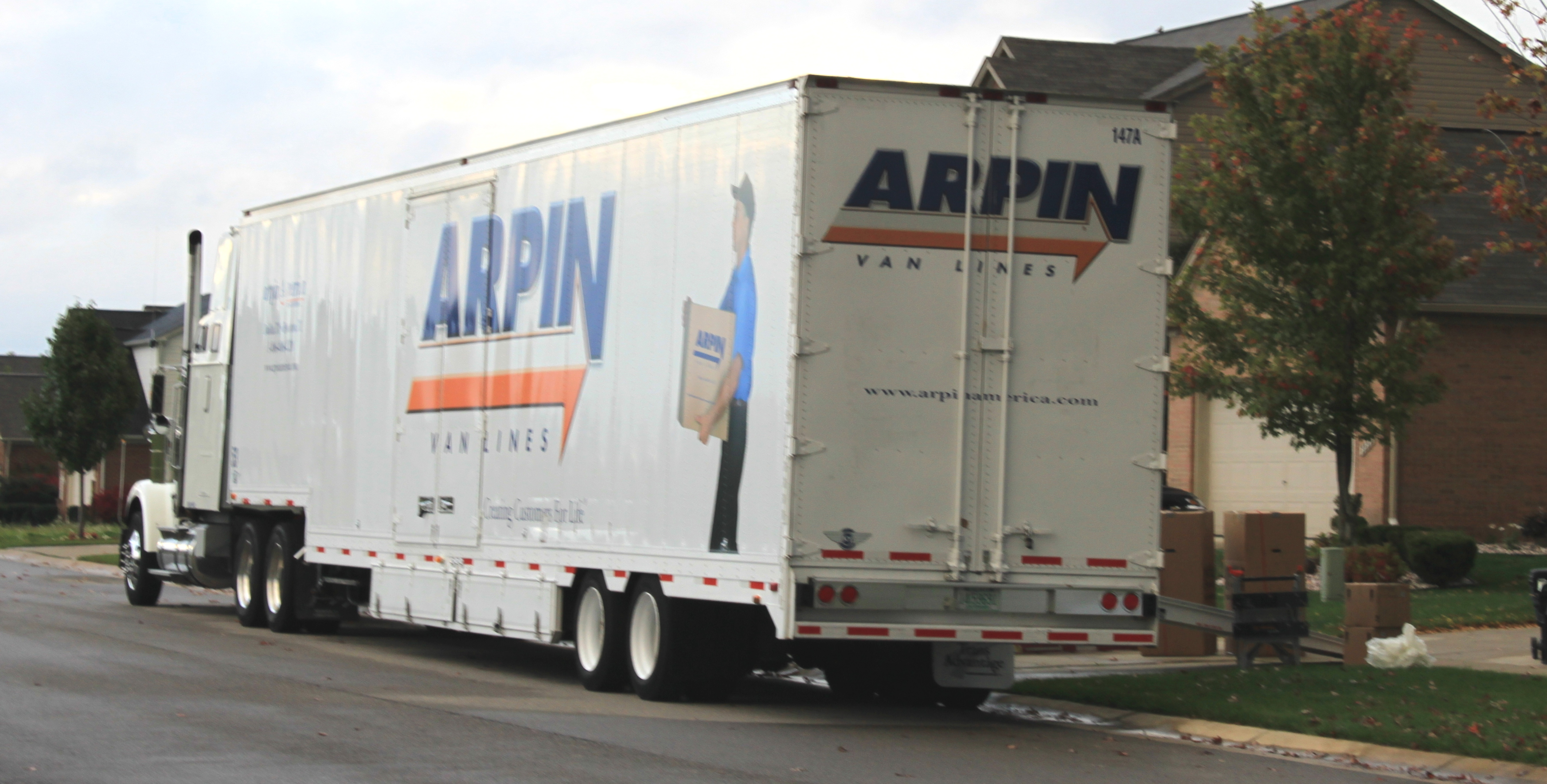 Arpin Van Lines moving van, Abigail Drive, Superior Township Michigan